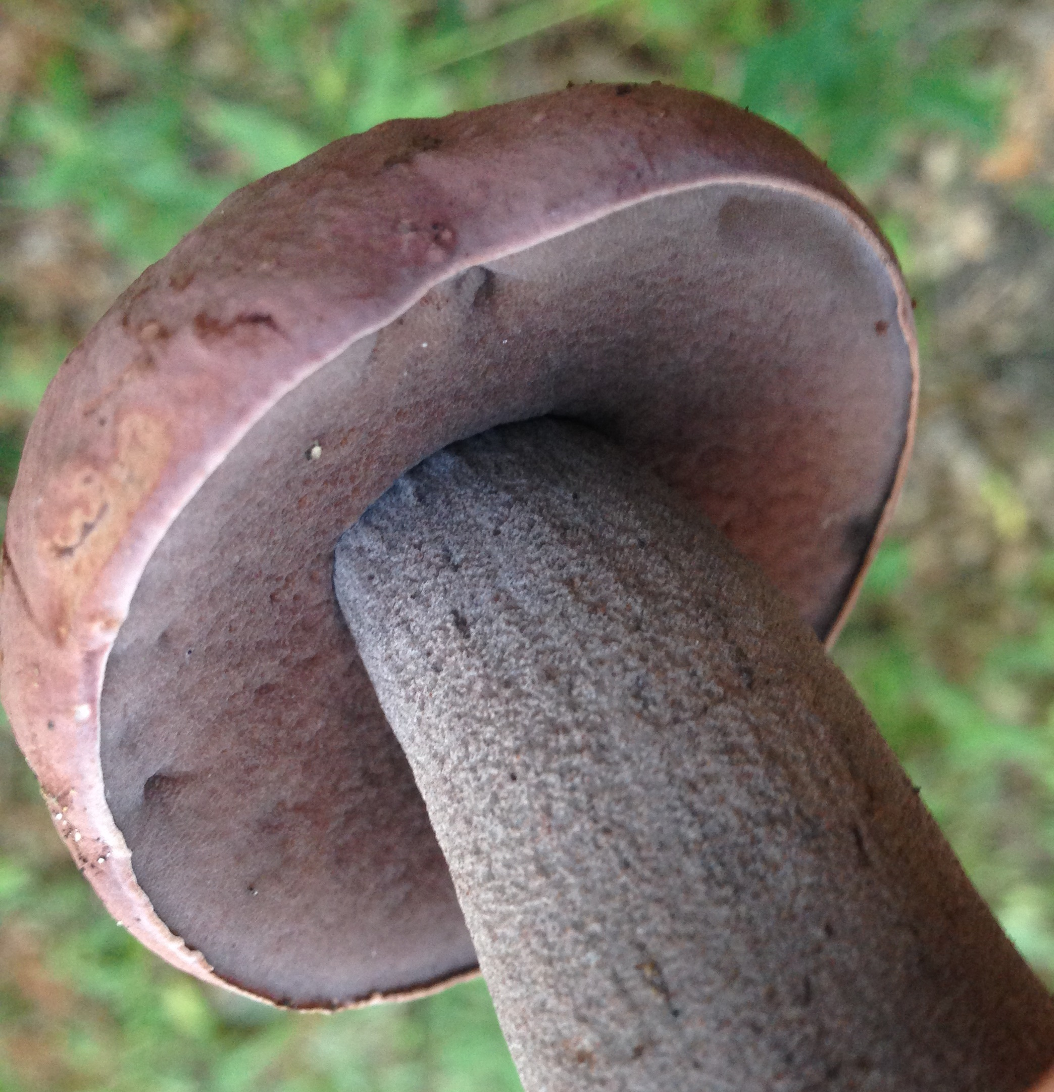 Sutorius eximius (Peck) Halling, Nuhn, & Osmundson Image location: Spring Garden, Windsor, Ontario, Canada growing under oaks Recognized by sight For more information about this, see the observation page at Mushroom Observer.